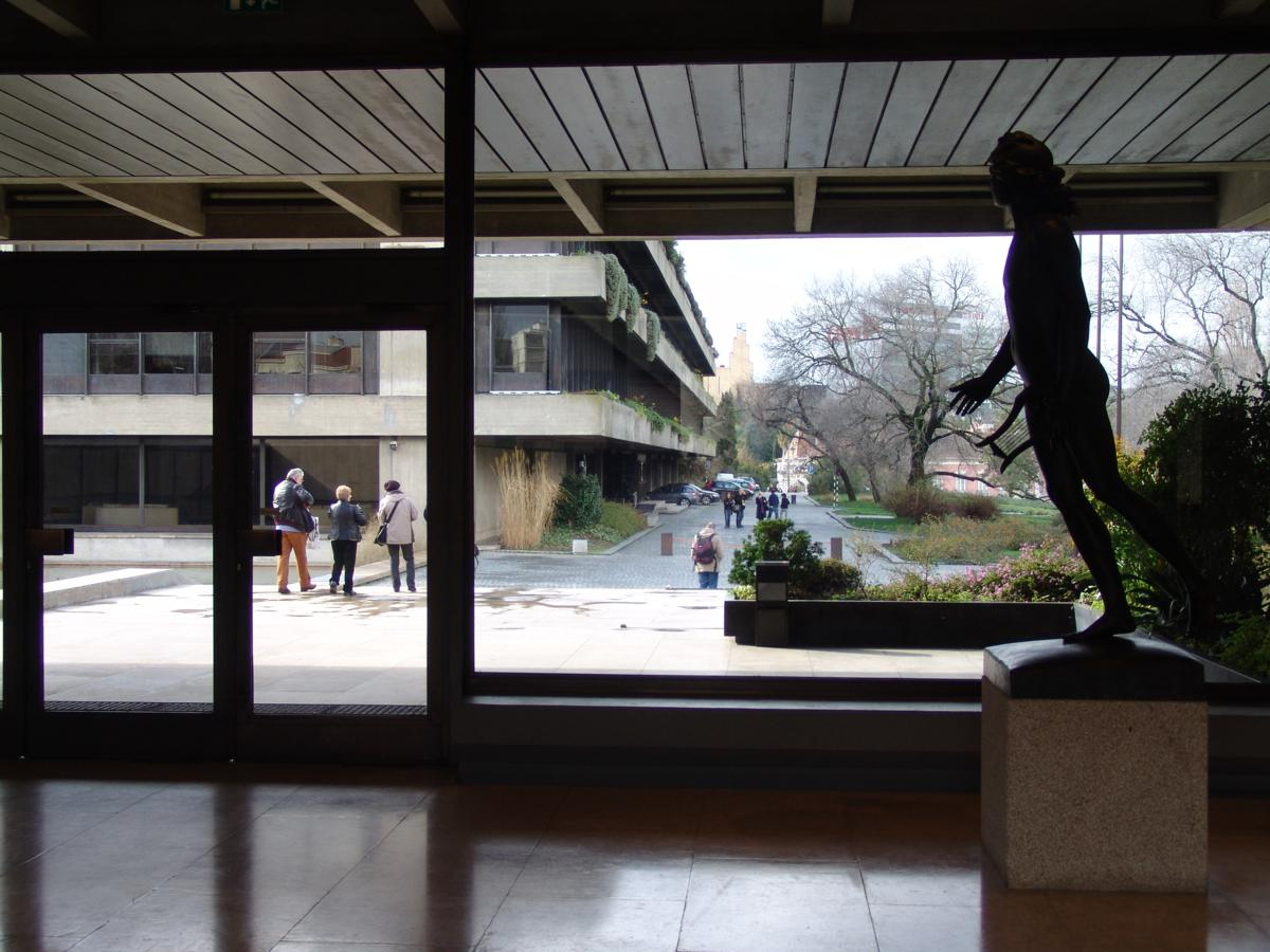 Museu Calouste Gulbenkian